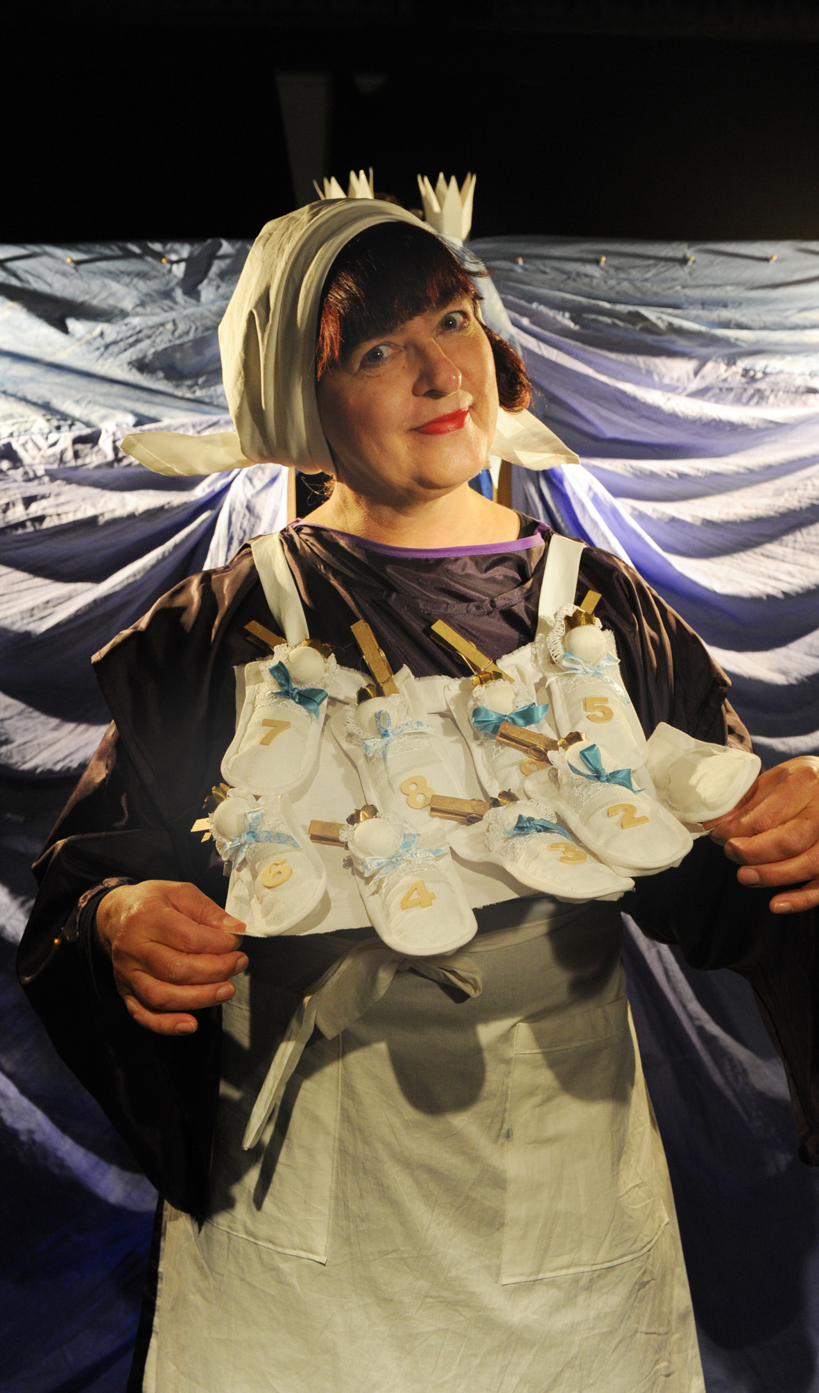 Finnish Puppetry artist Kerttu Aaltonen